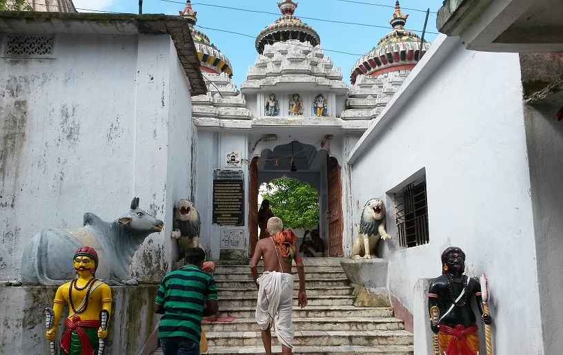 Chitreshwar Shiv Mandir